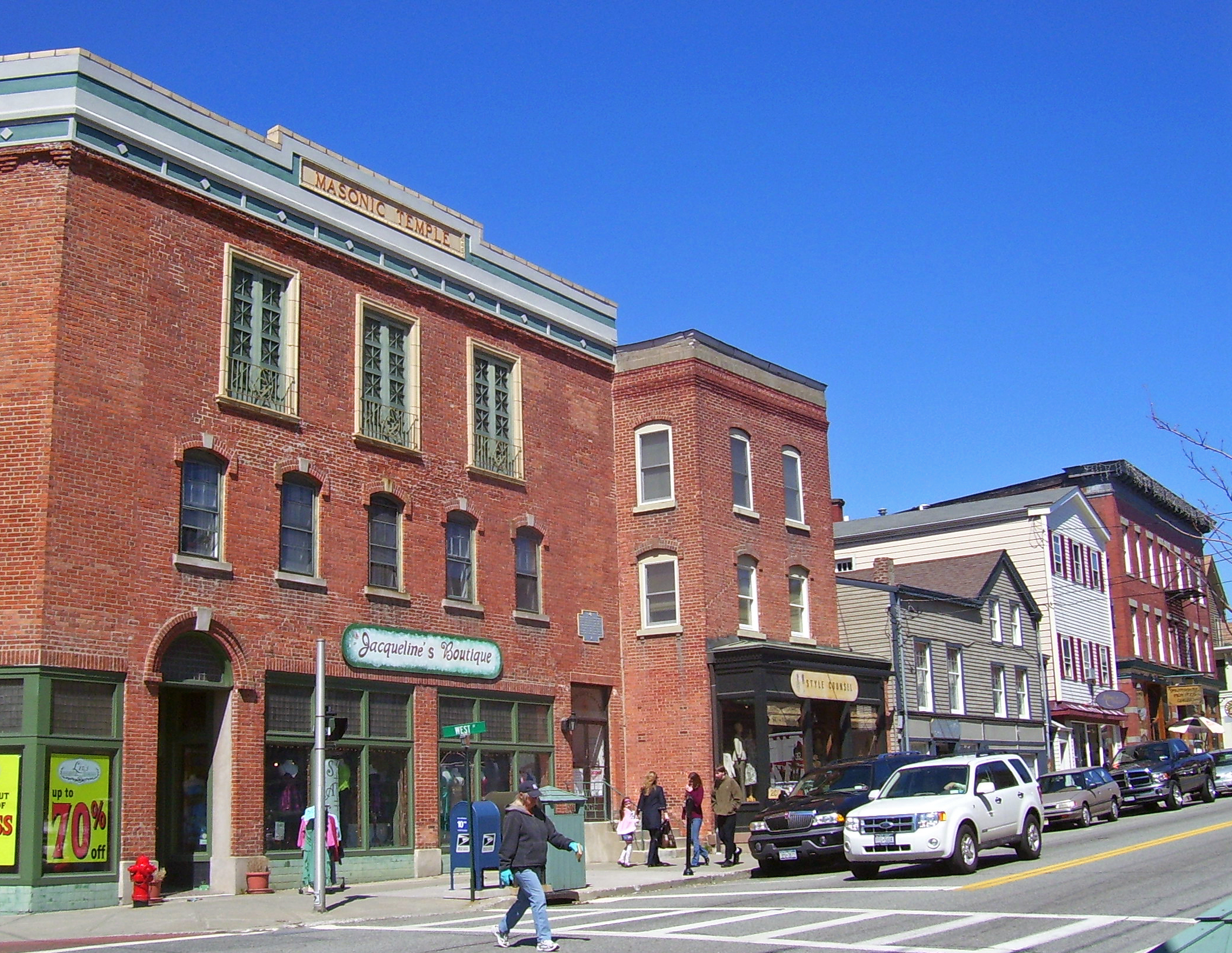 Main Street (NY 94/17A) in Warwick, NY, USA, part of the village's historic district.